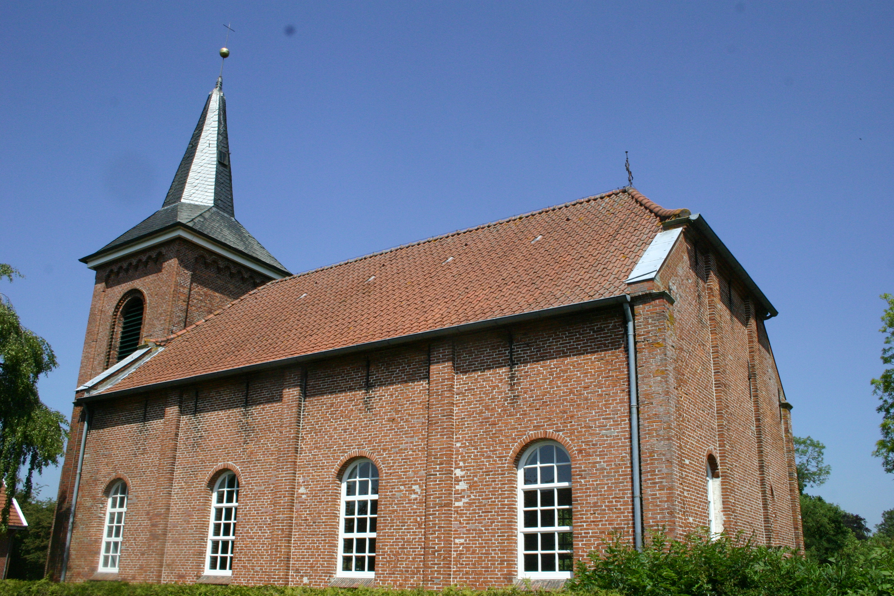 Historic church in Weenermoor, district of Leer, East Frisia, Germany